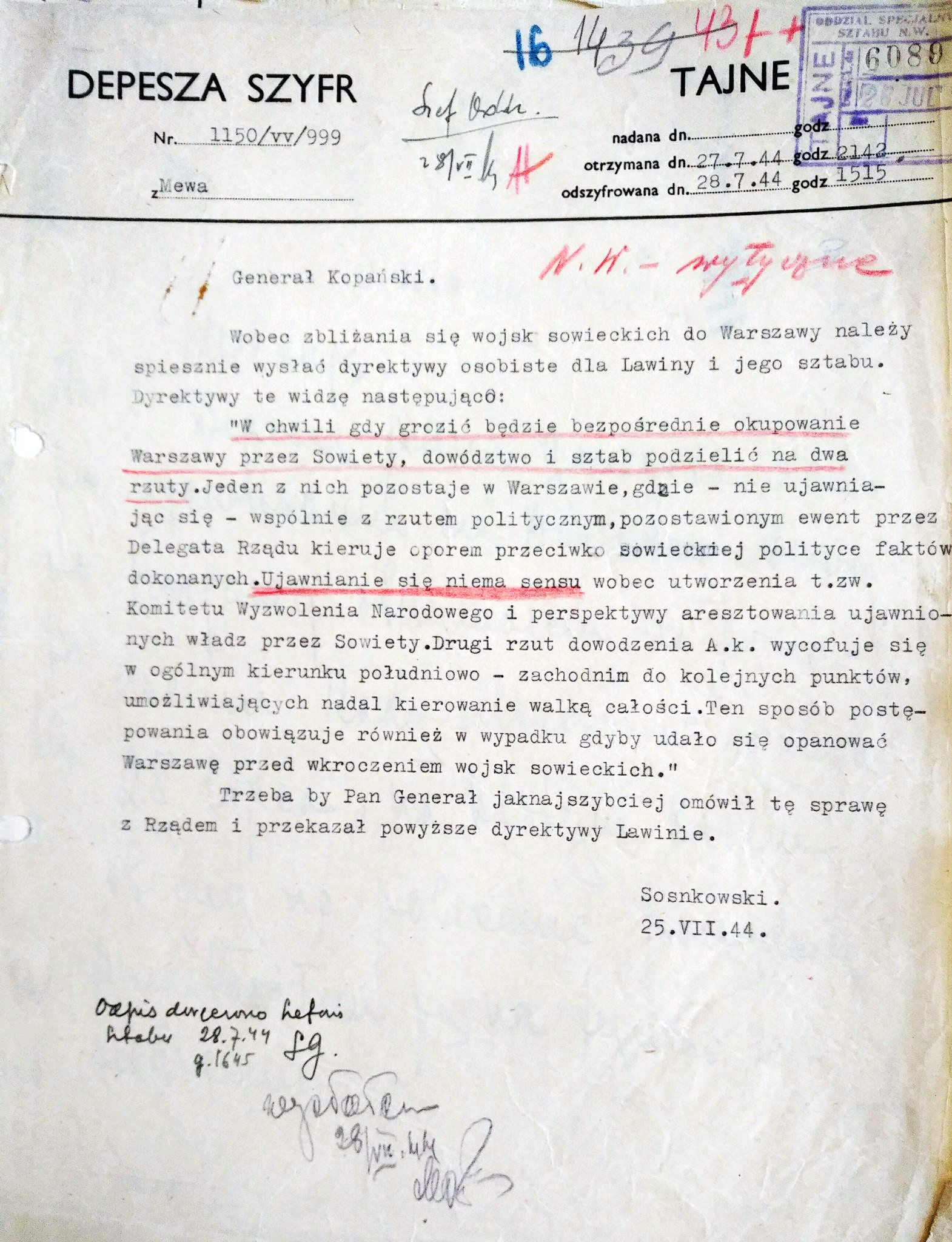 Gen. Kazimierz Sosnkowski, Commander-in-Chief of the Polish Armed Forces in the West dispatch to Gen. Stanisław Kopański, Chief of Staff of the CIC of the Polish Armed Forces, from 25th of July 1944